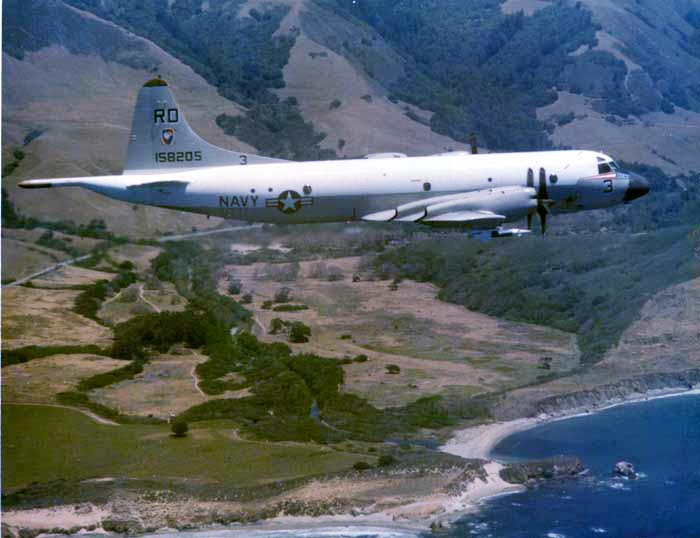 VP-47 (RD 3) P-3C (BuNo 158205) in-flight armed with a Bullpup air-to-ground missile, date unknown. Repository: San Diego Air and Space Museum Archive